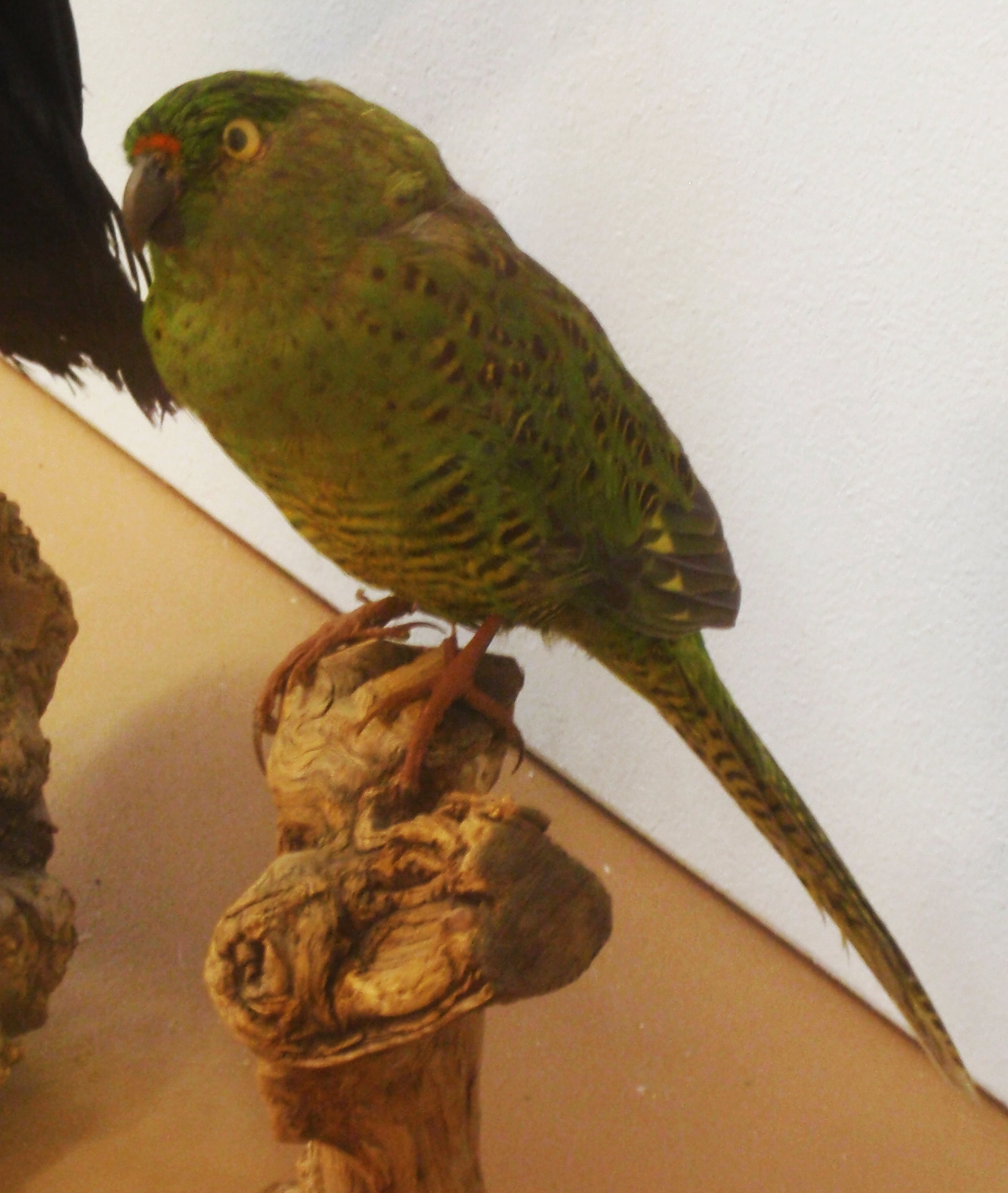 Stuffed specimen of western ground parrot (Pezoporus wallicus) at Göteborgs Naturhistoriska Museum.